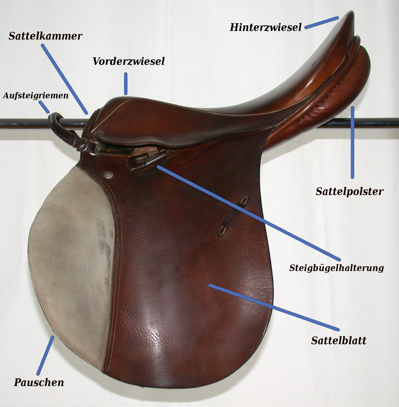 English Saddle with description of the parts (in German).